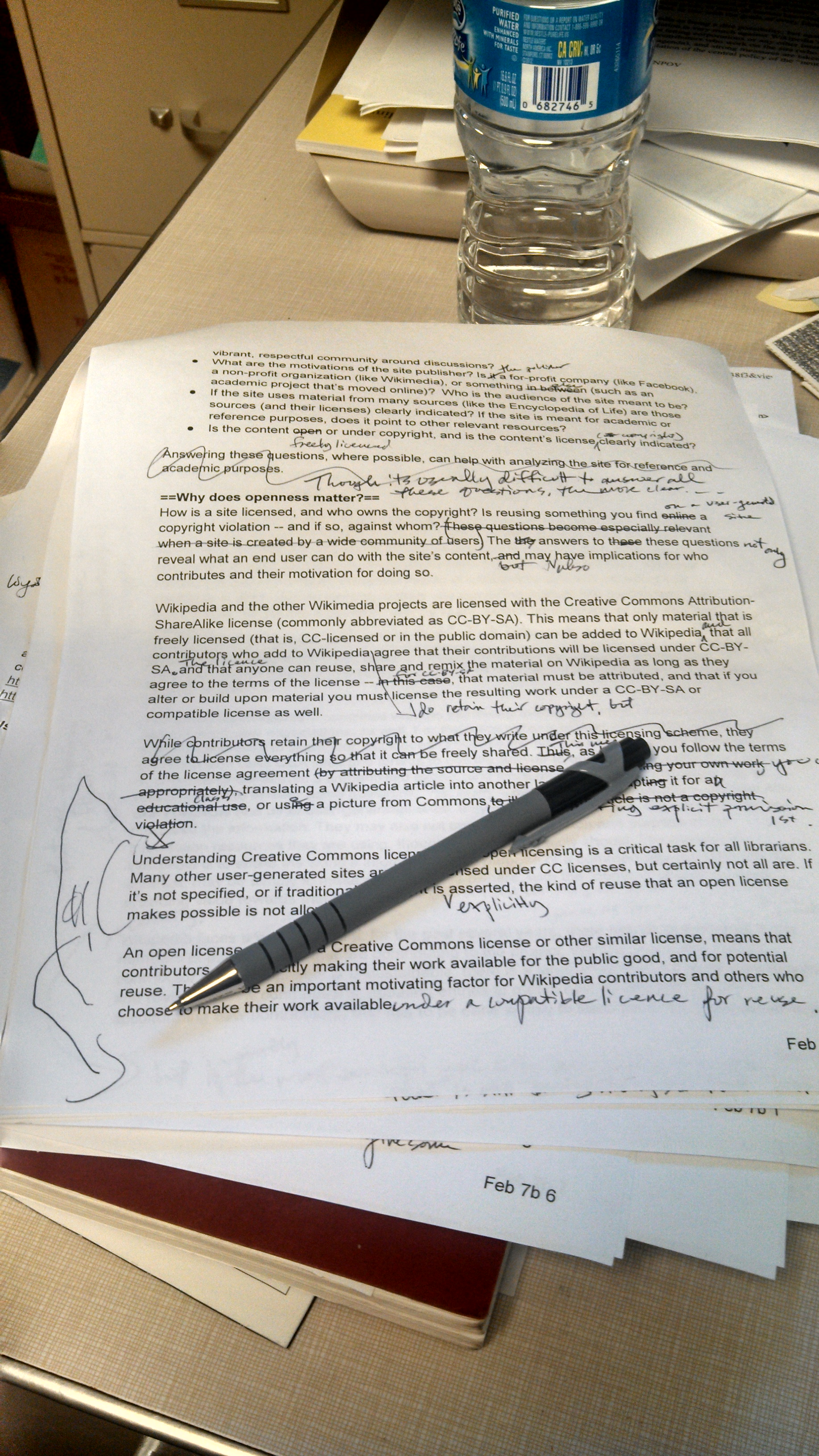 An example of a computer-printed manuscript undergoing revision, or copy editing, by a non-professional copy editor. Traditionally red pen would be used to make these edits, using copy editing symbols such as the paragraph mark; this manuscript does not consistently professional markings.